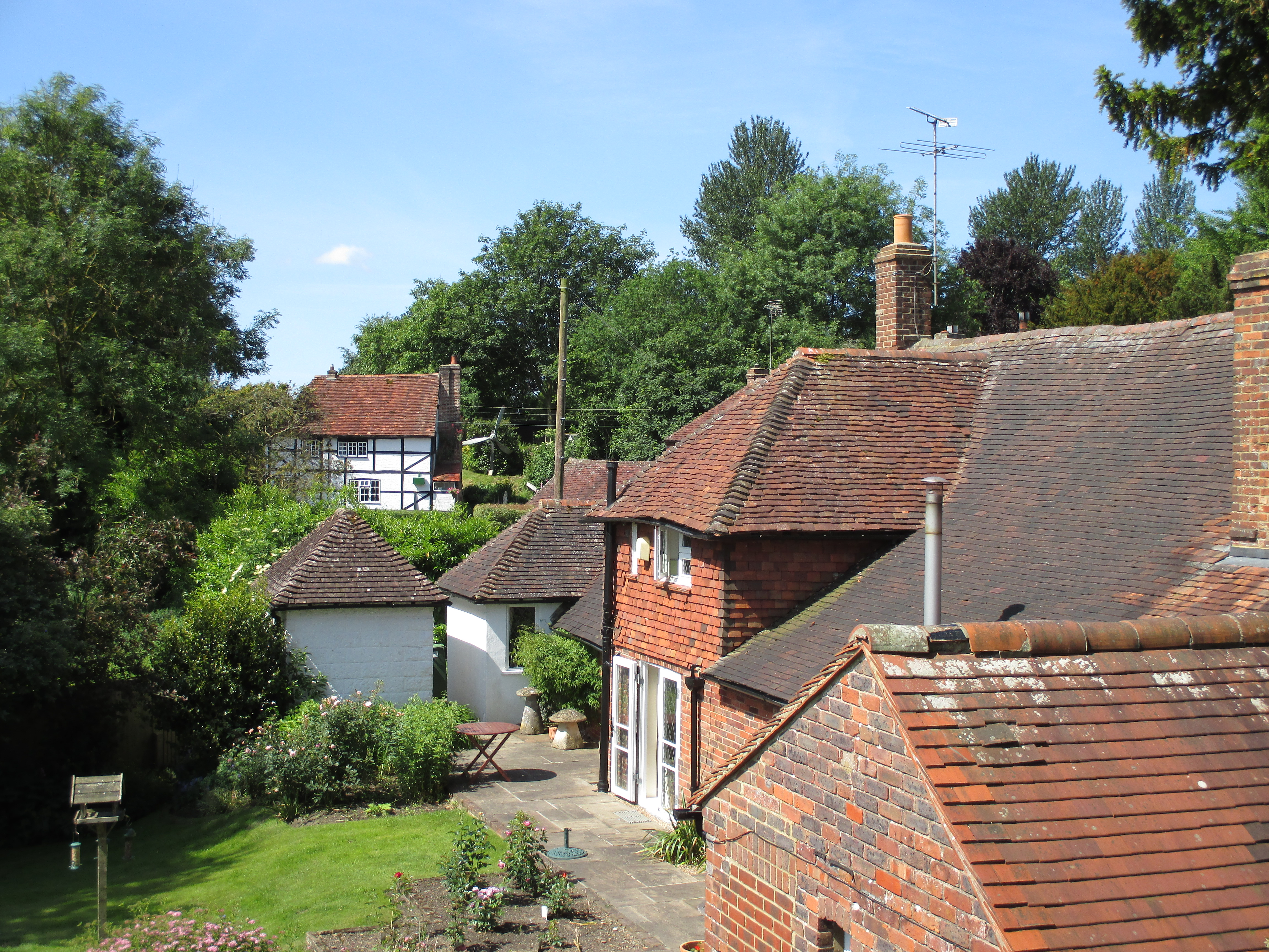 View from the churchyard of St Mary's Church, Thakeham, West Sussex, including in the foreground the back of Church House, a Grade II listed building.